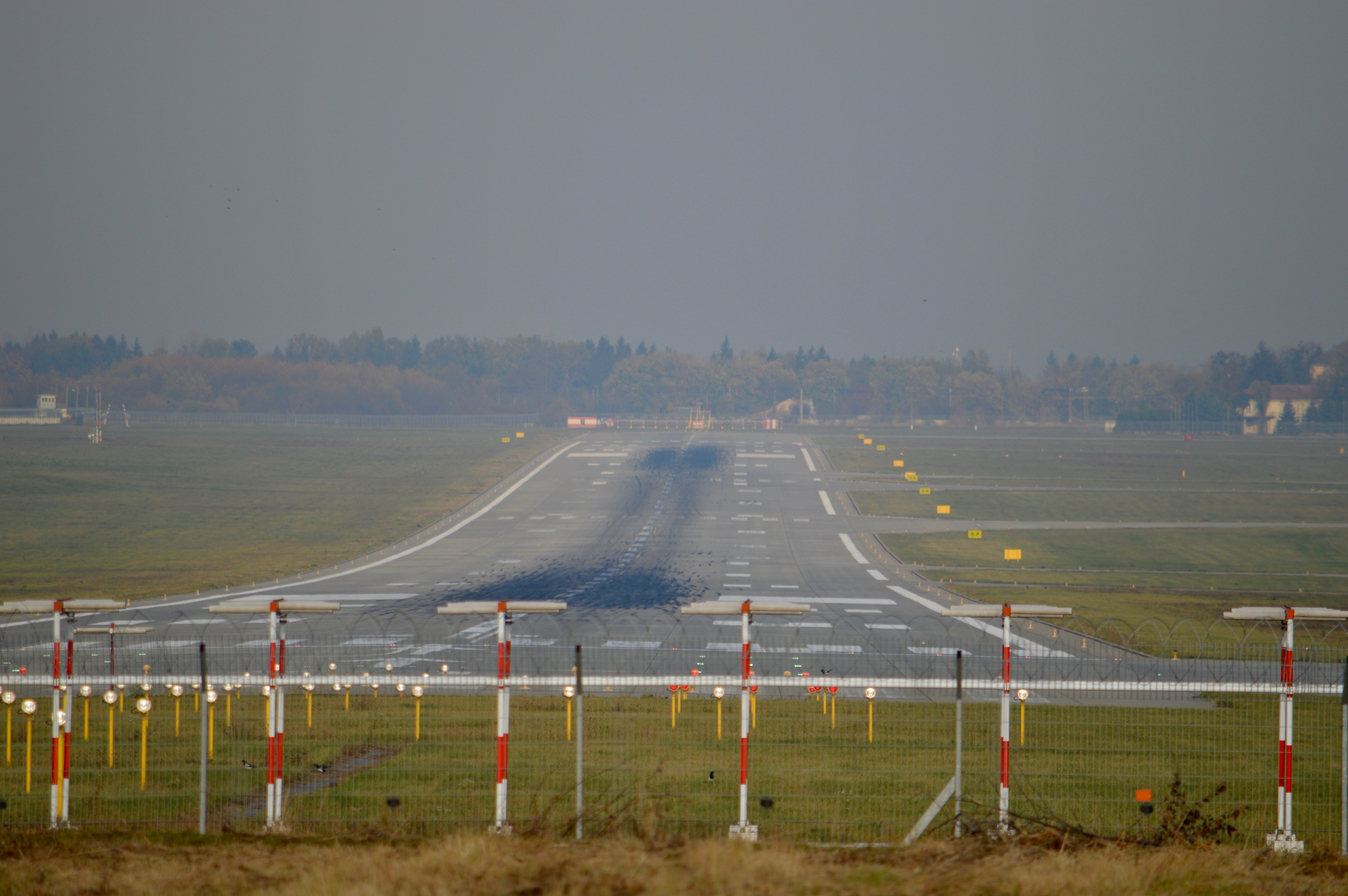 Runway of Lviv International Airport